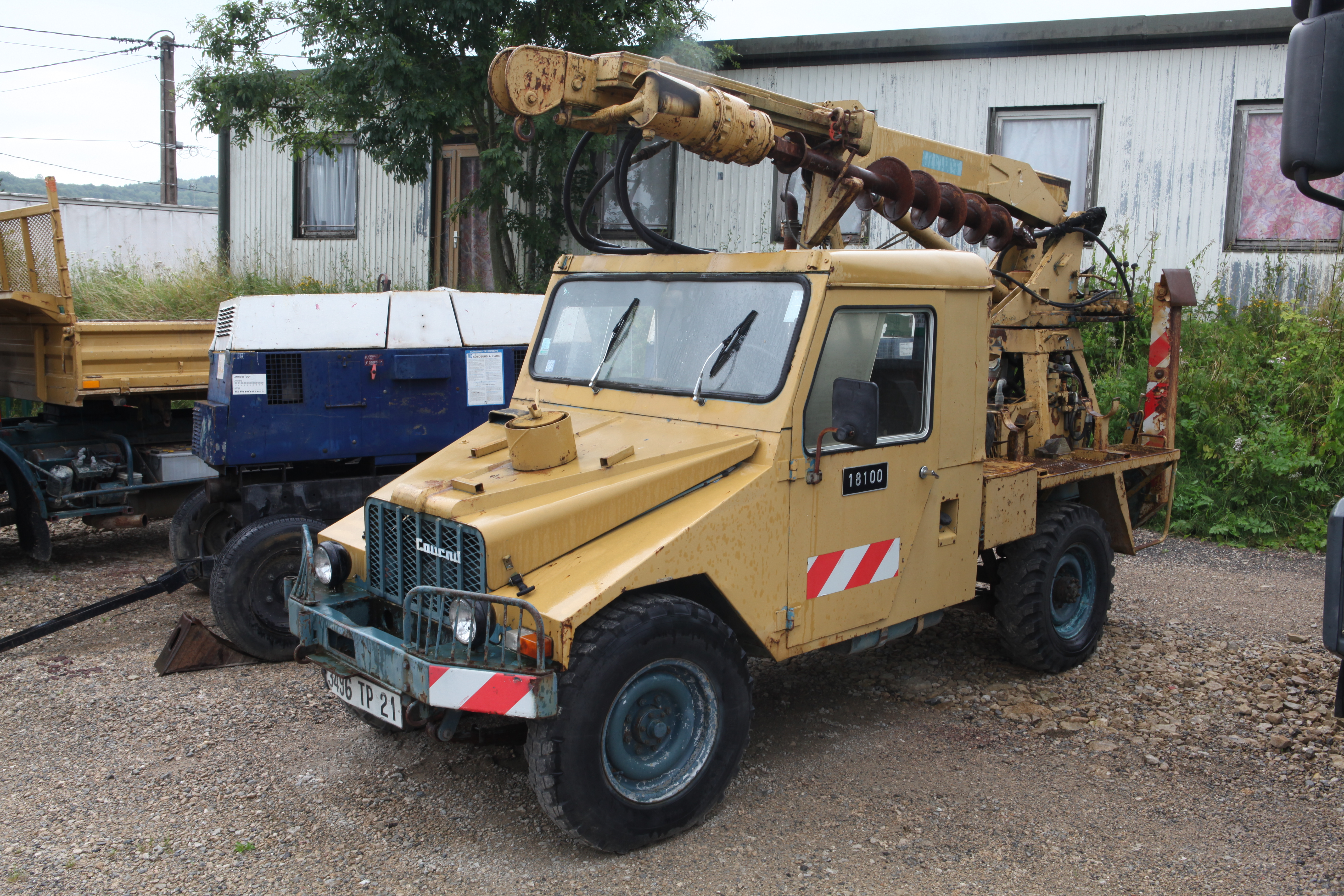 Cournil 4 x 4